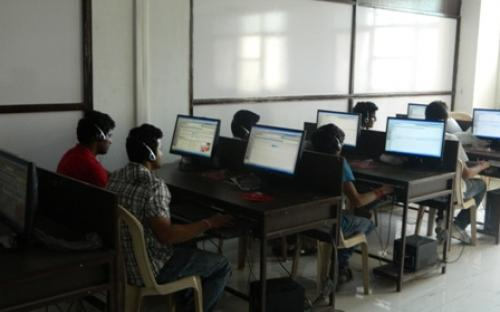 pic shows students in the language lab of PCoE.